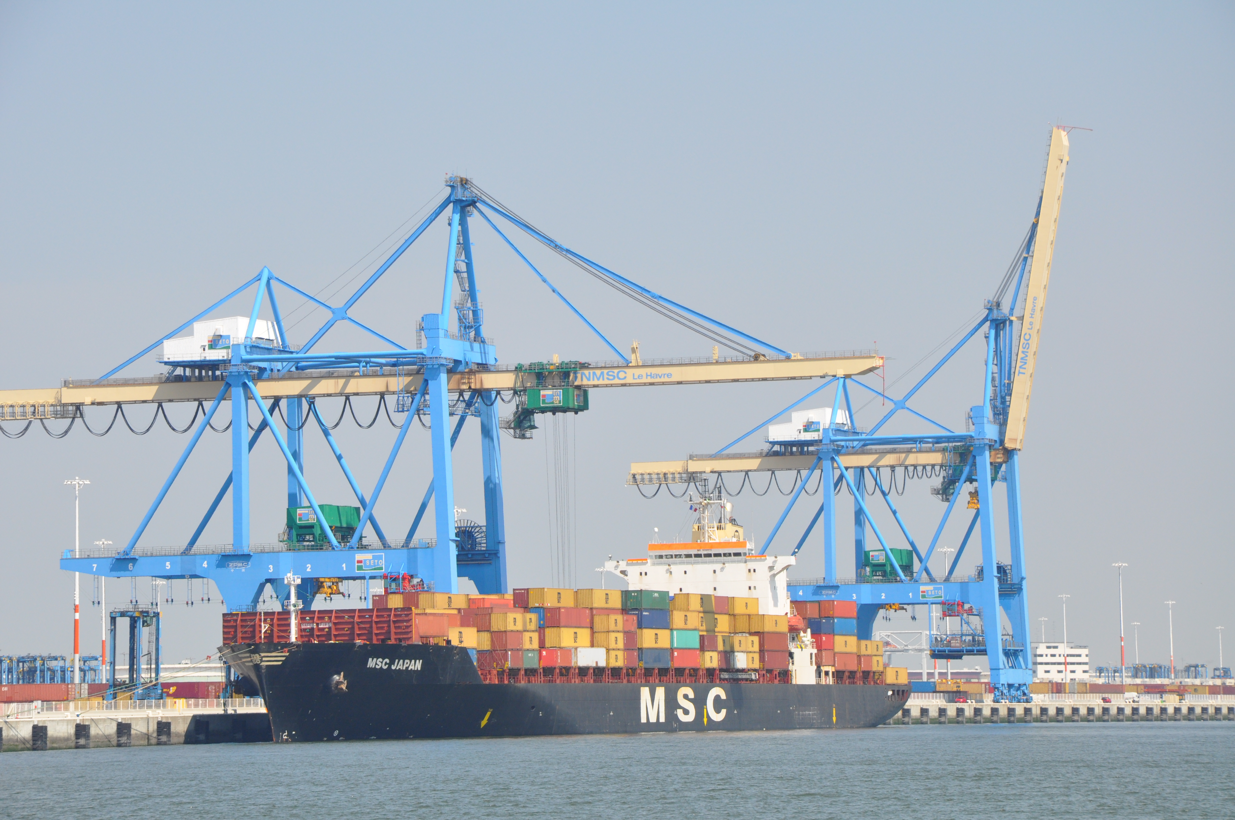 Le Havre (France, Normandy), MSC Japan ship in containers terminal (Port 2000)